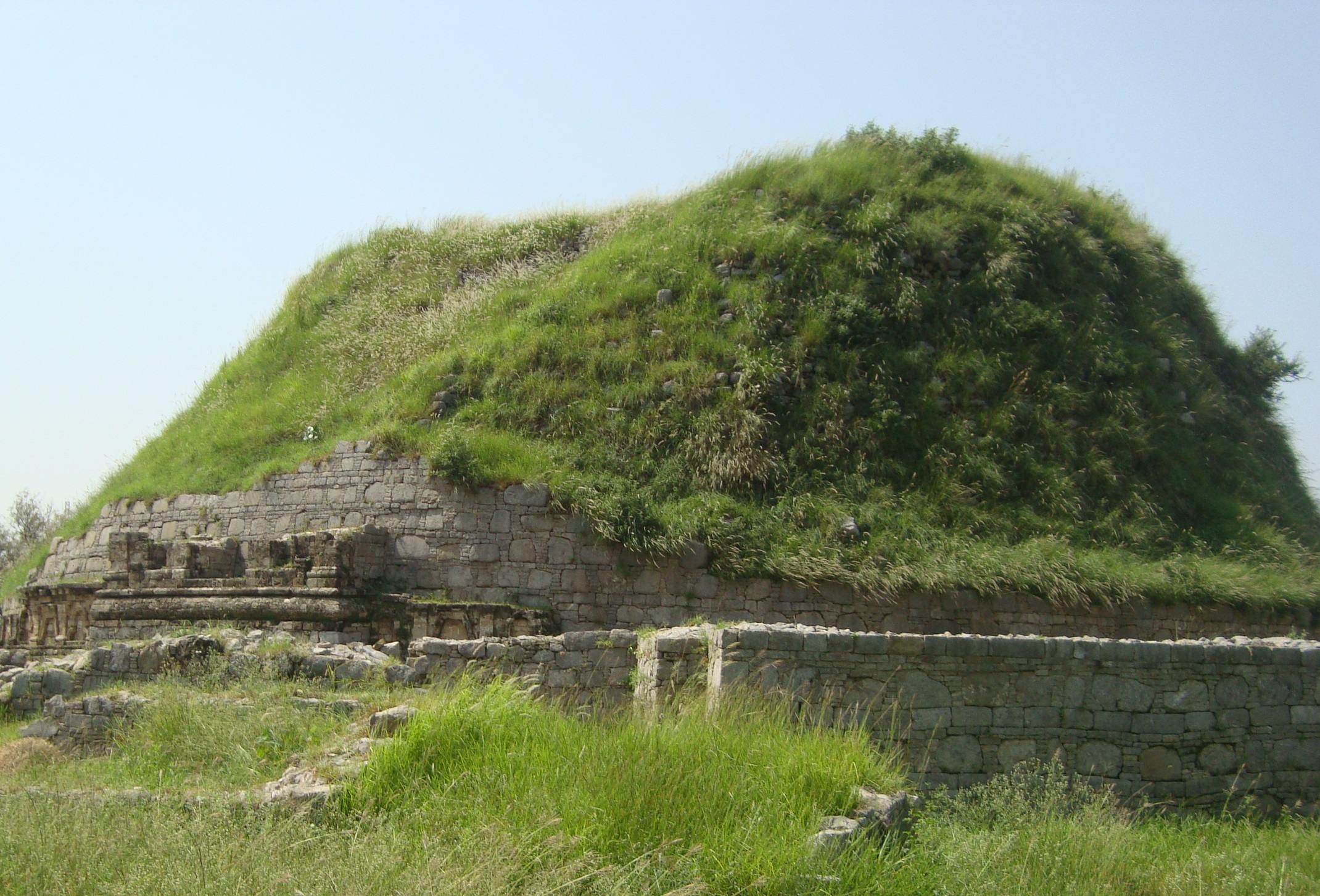 Dharmarajika stupa and monastery This is a photo of a monument in Pakistan identified as the PB-127